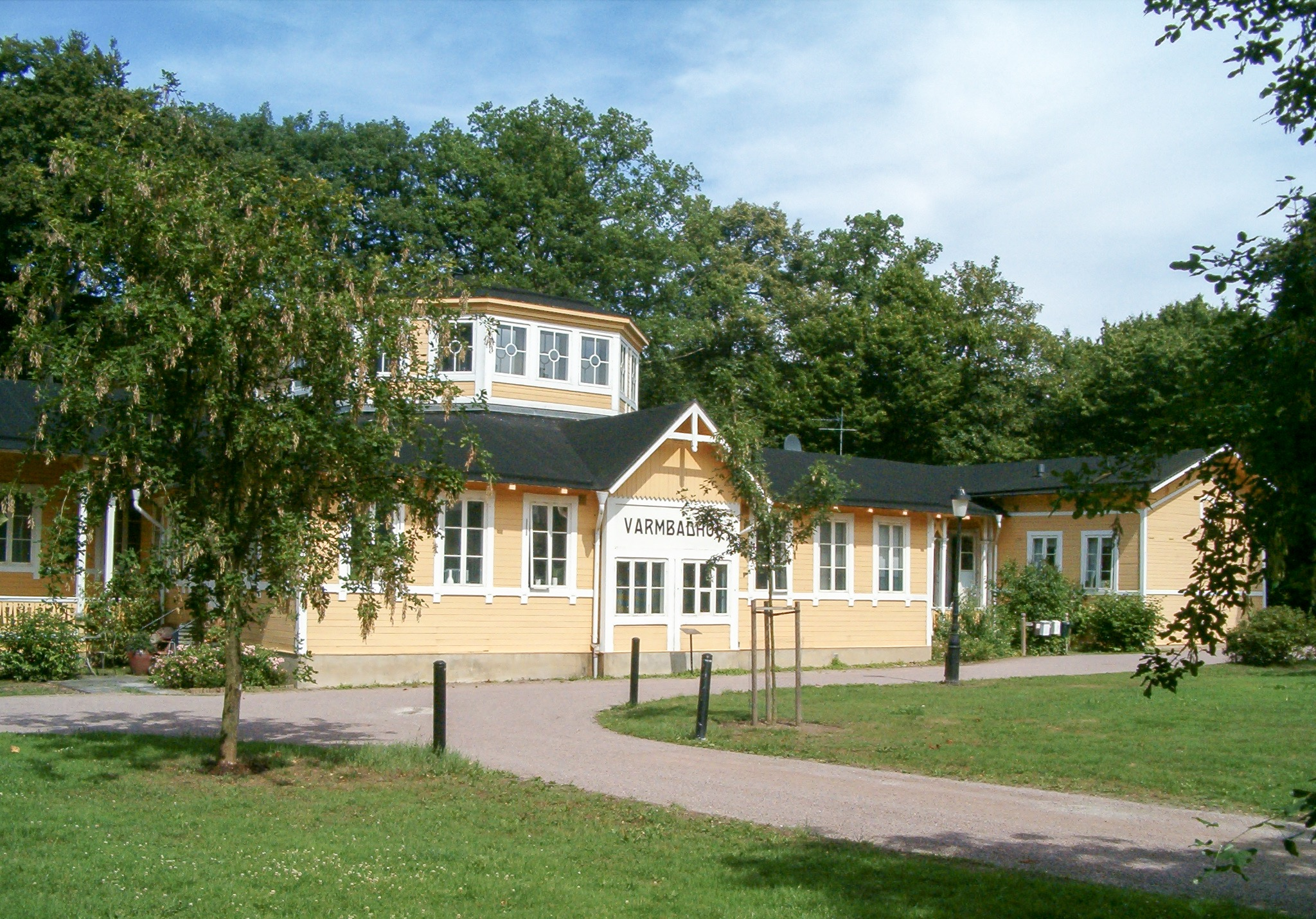 The Bathhouse at the Ramlösa mineral water spring in Helsingborg, Sweden.